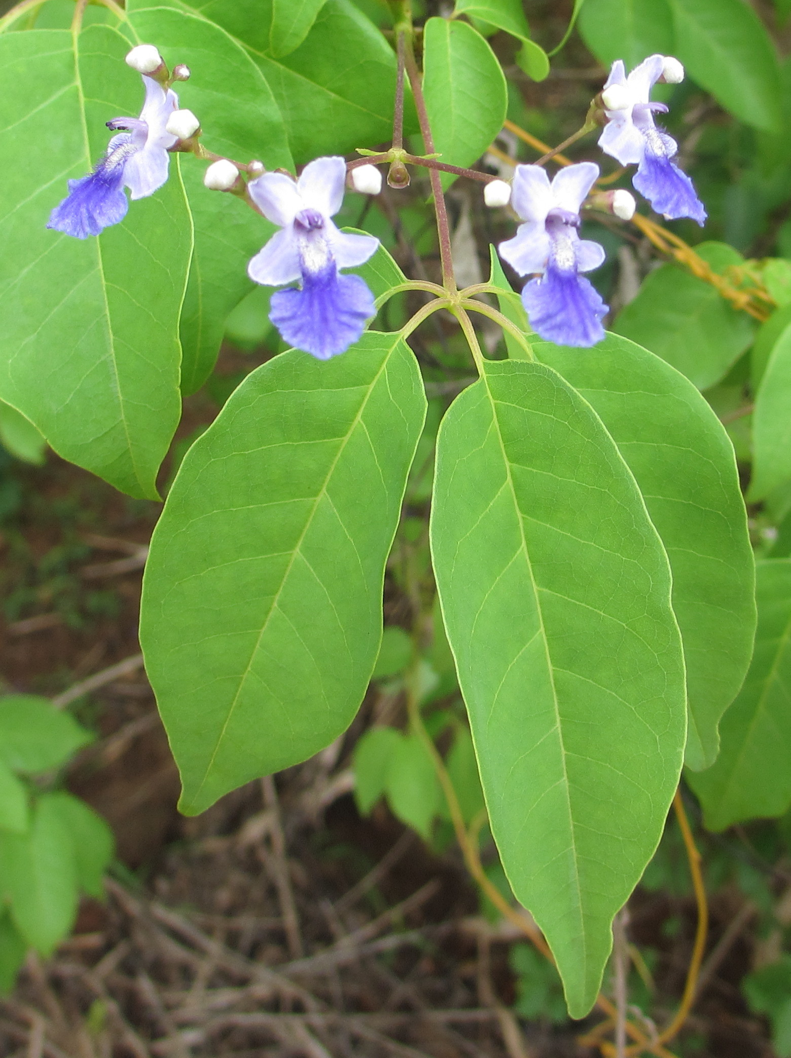 This looks a bit like Vitex buchananii, but with blue flowers, instead of white. Here in the wild, close to Pemba town in Northern Mozambique.